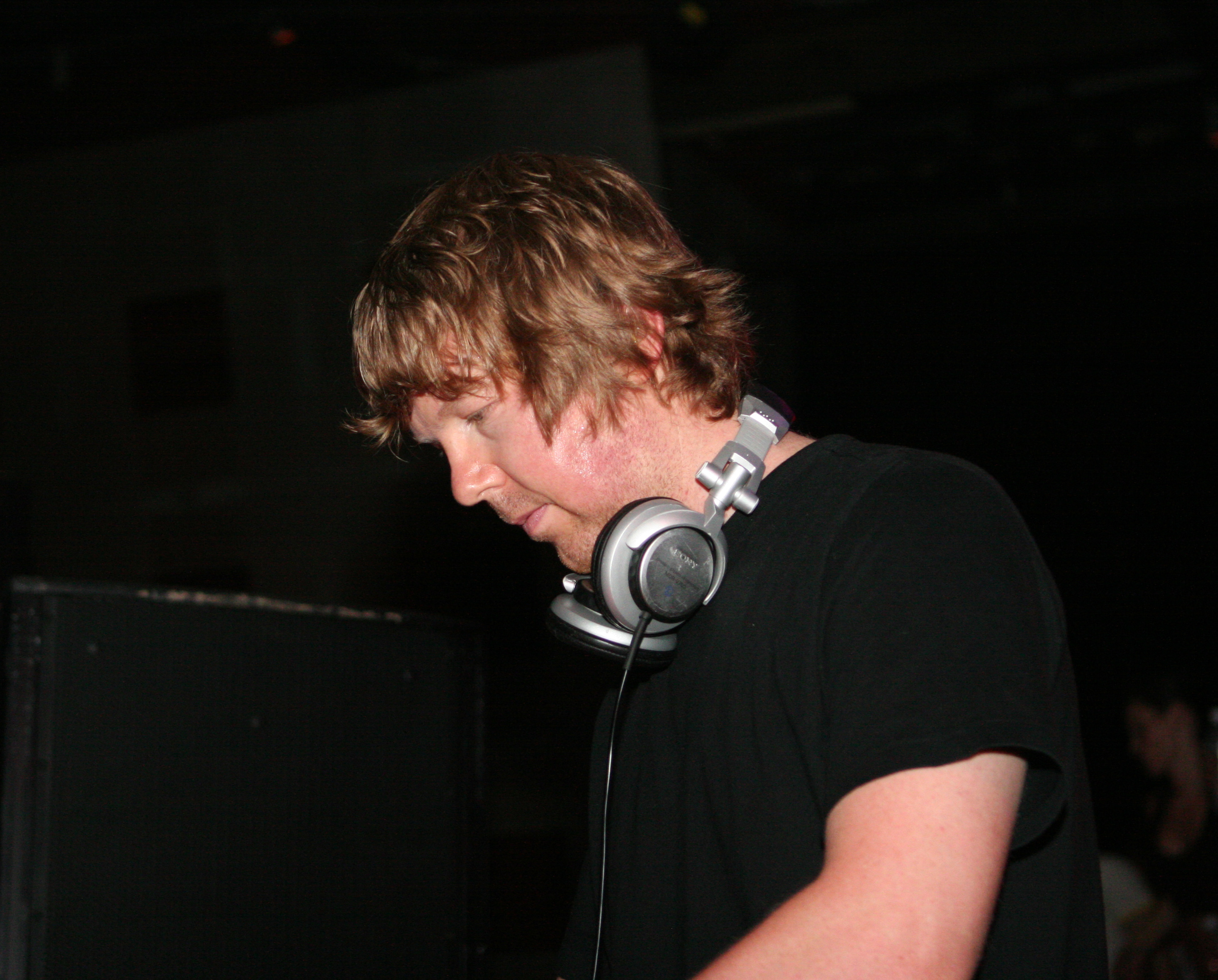 John Digweed @ 2006-09-03 Labour of Love, Toronto